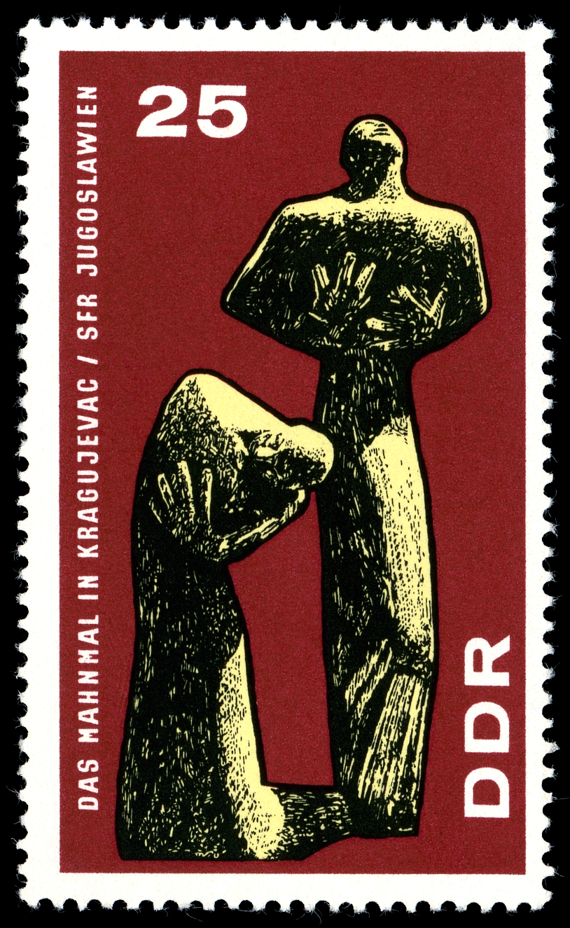 Ausgabepreis: 25 Pfennig First Day of Issue / Erstausgabetag: 20. September 1967 Auflage: 4.000.000 Entwurf: Weiß Druckverfahren: Offsetdruck Michel-Katalog-Nr: Ländercode-MiNr: 1311 Licensing This file is most likely NOT in the public domain. It has been marked for review, and will be deleted in due course if the review does not find it to be in the public domain.This file was previously considered to be in the public domain as a German stamp; it is possible that it is in the public domain for other reasons, in which case a new rationale will be applied as part of the review process. See below for the previous rationale. Previous public domain rationale, no longer applicable This stamp is in the public domain in Germany because it was released by the postal administration of the German Democratic Republic or the Soviet occupation zone (Deutschen Post der DDR) whose legal successor is the Federal Republic of Germany. Thus it is an official work according to German copyright law (§ 5 Abs. 1 UrhG).